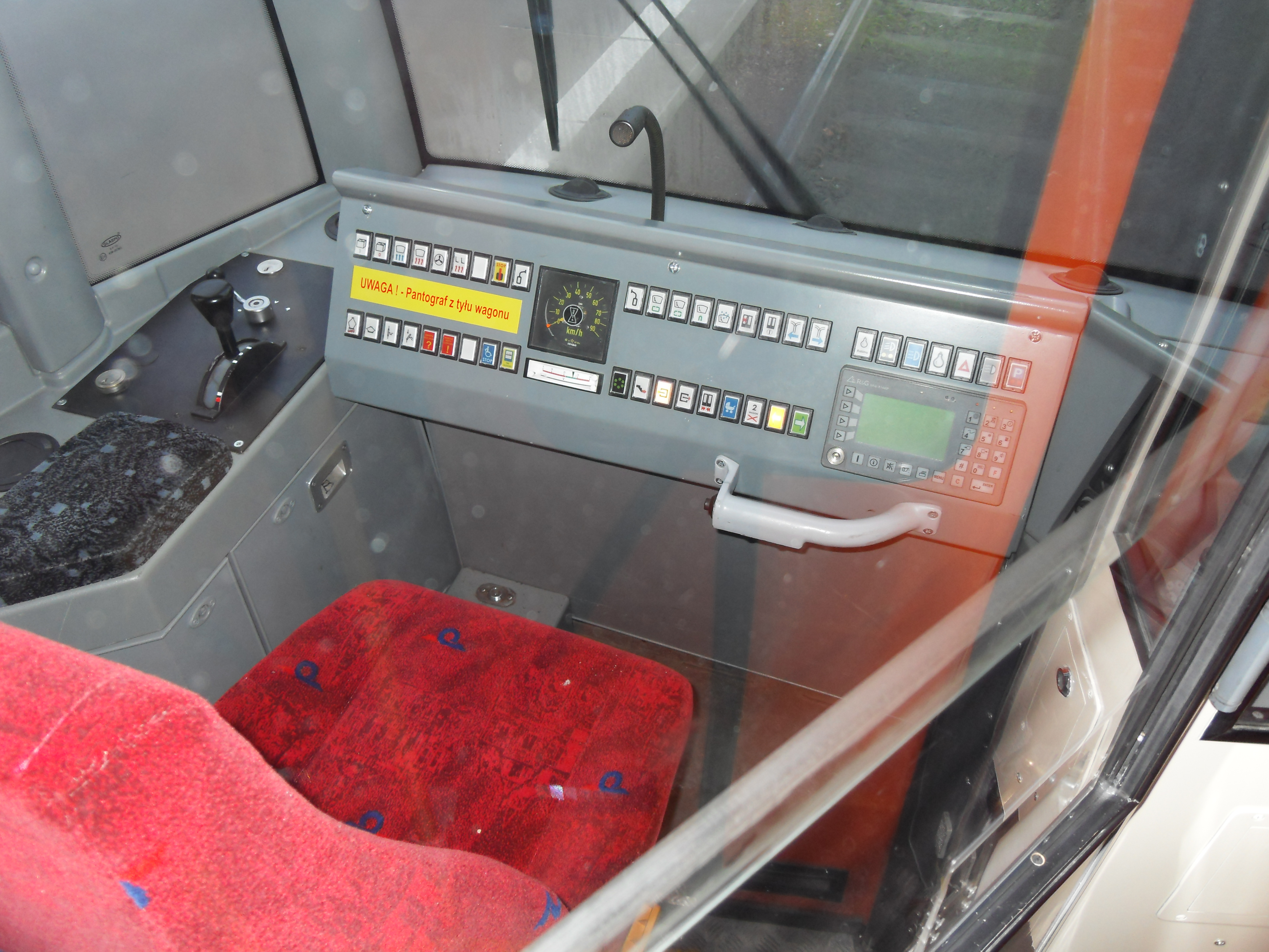 A Moderus Beta MF 01 tram in Gdańsk (Poland) - driver's cab.